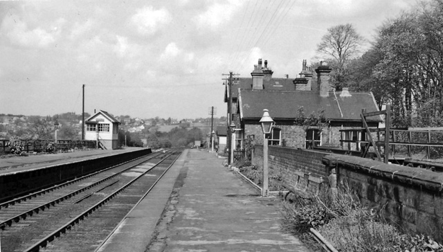 Bardsey Station. View northward, towards Wetherby; Leeds - Wetherby line, closed to passengers 6/1/64, to Goods 27/4/64.